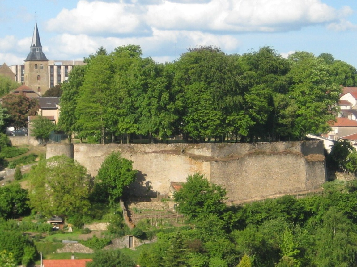 Description Remparts de Briey Date22 May 2009Sourcemon appareil photoAuthorAimelaime Remparts de Briey